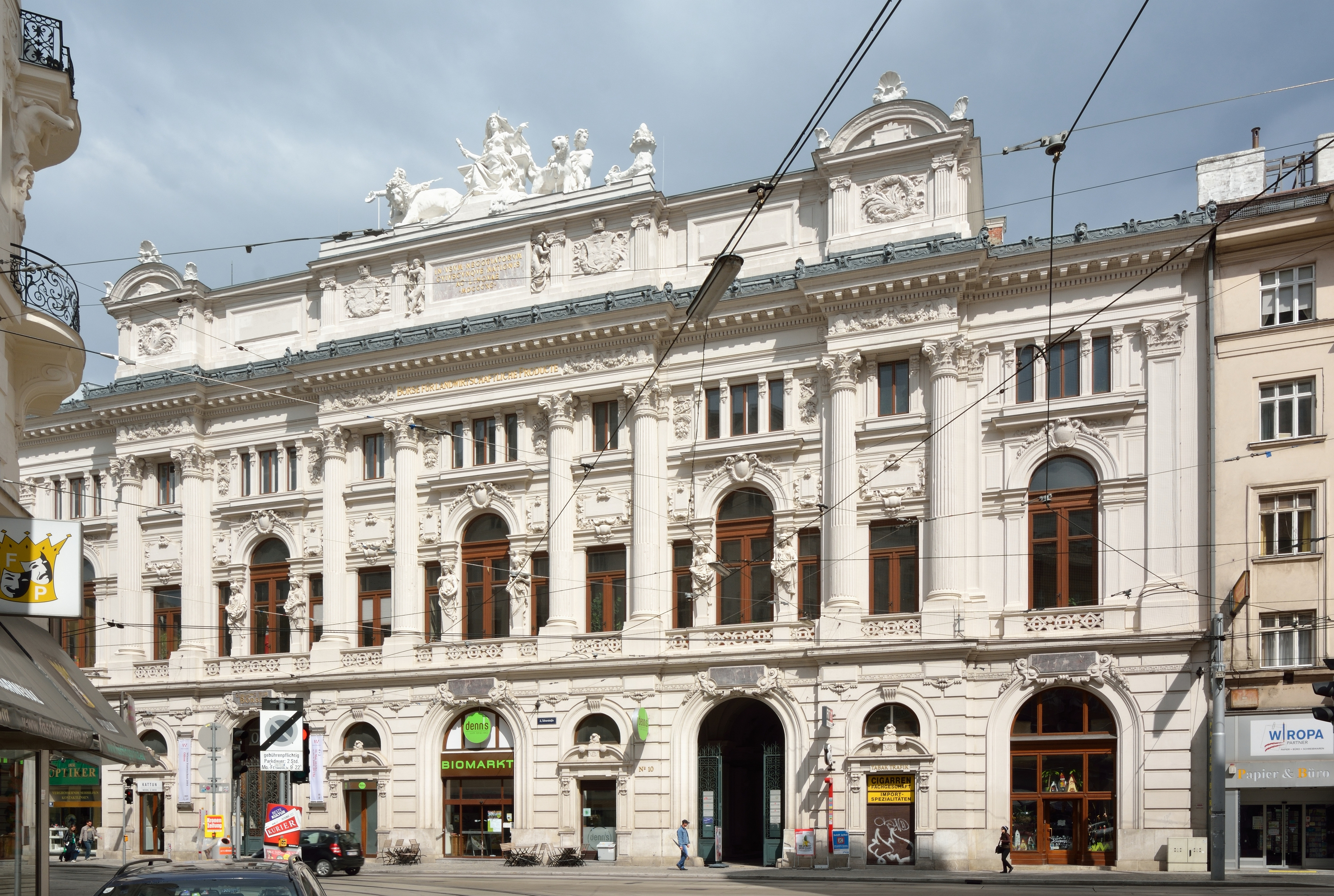 Exchange for agricultural products, Taborstraße 10, 2nd district of Vienna, Austria